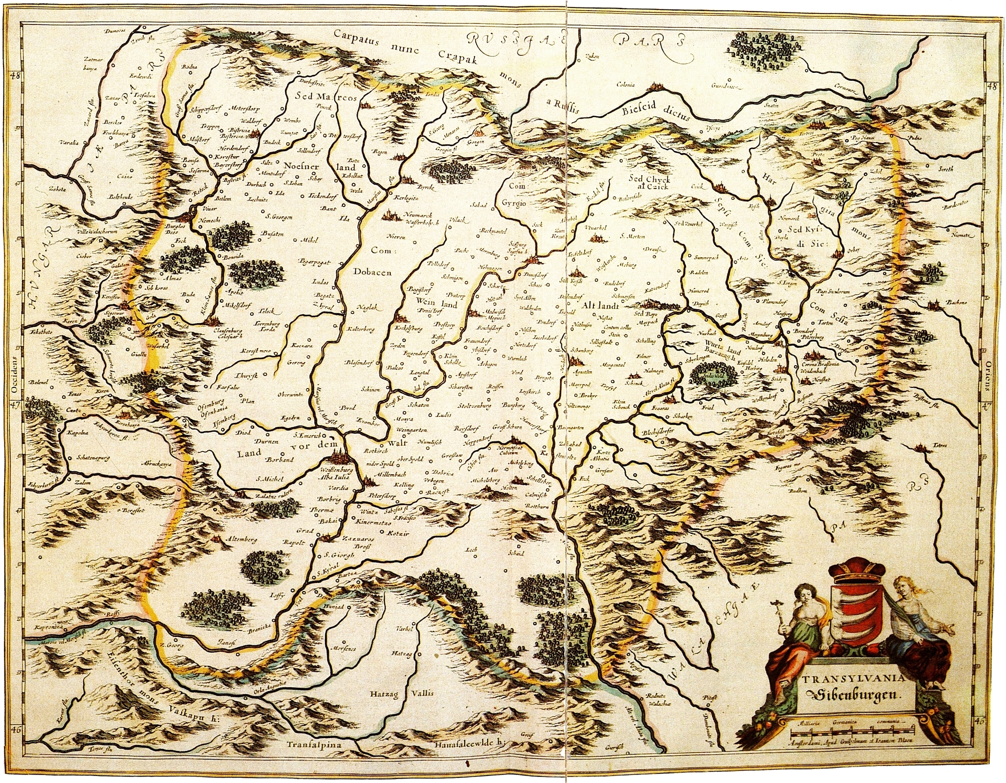 Siebenbürgen